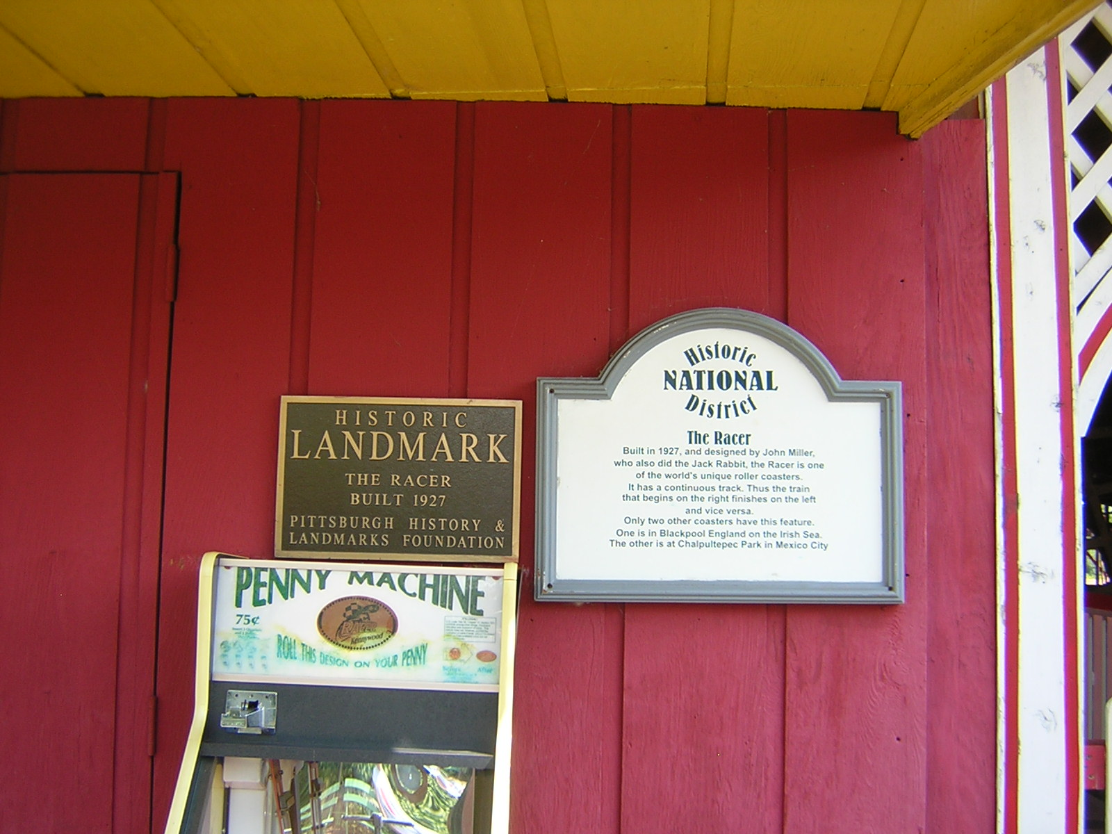 A scene from Kennywood, an amusement park located in West Mifflin, Pennsylvania on the Monongahela River. This is a view of the Racer, a wooden roller coaster. It is a racing, moebius loop coaster; one of only three in the world. The current Racer was designed by John A. Miller in 1927 and built by Charlie Mach. This is a view of a historical information sign and plaque.